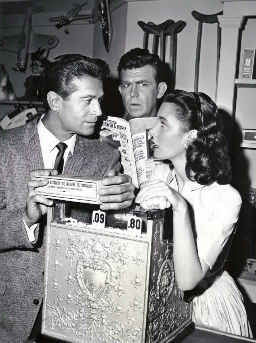 Photo of Andy Griffith, Elinor Donahue and George Nader from the television program The Andy Griffith Show. Andy can't keep his mind on his magazine as he's trying to hear every word Ellie the pharmacist and Mayberry's new doctor (Nader) are saying.